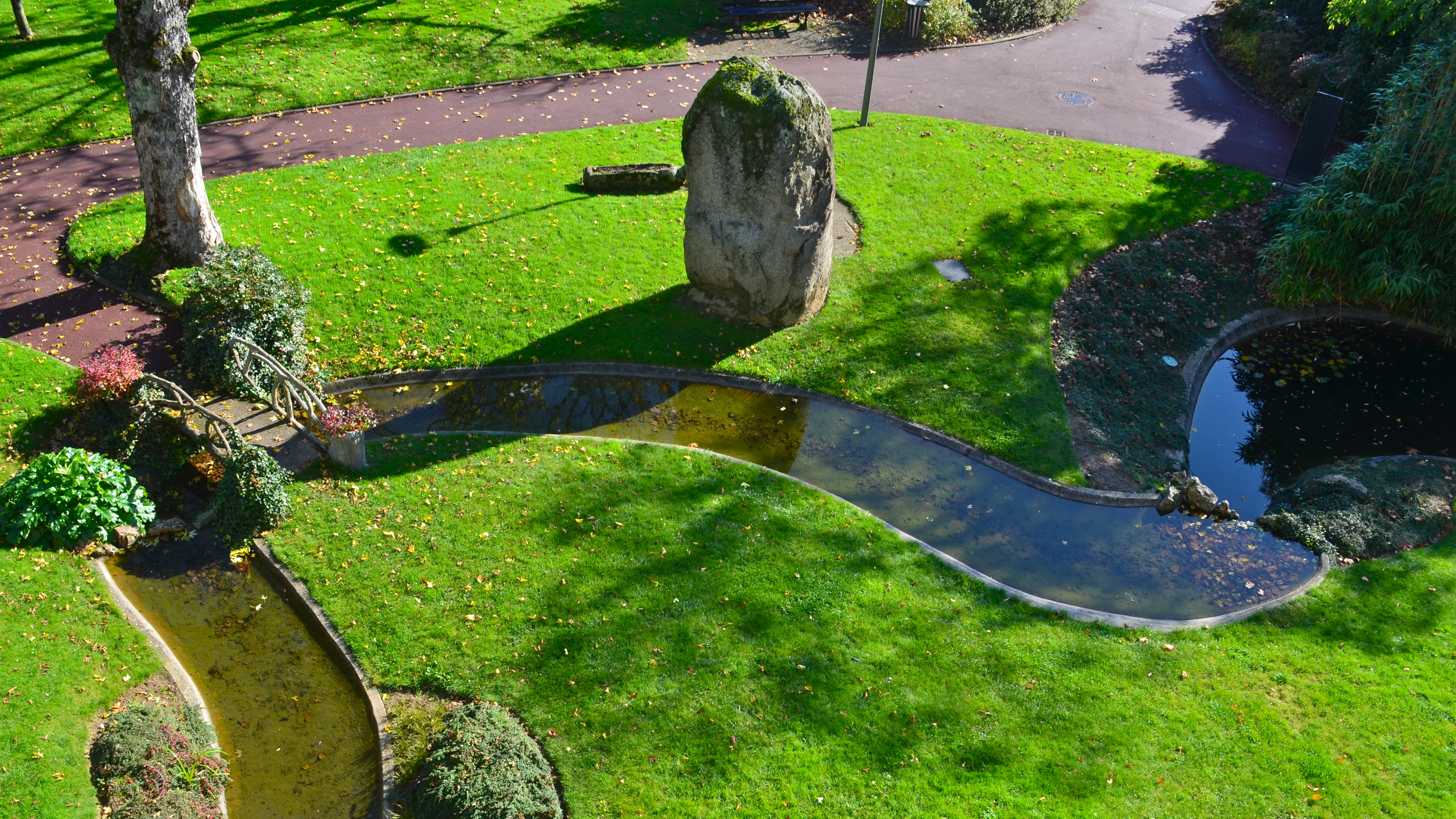 Menhir known as "de la Garde" - Cholet, France